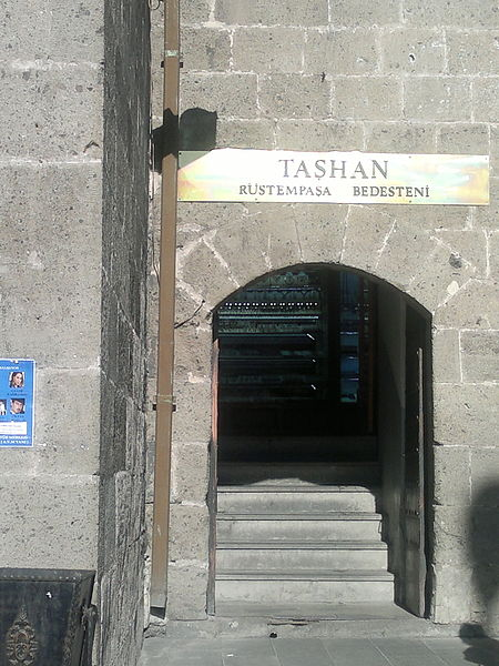 Entrance of Rüstem Pasha Caravansaray in Erzurum, Turkey.